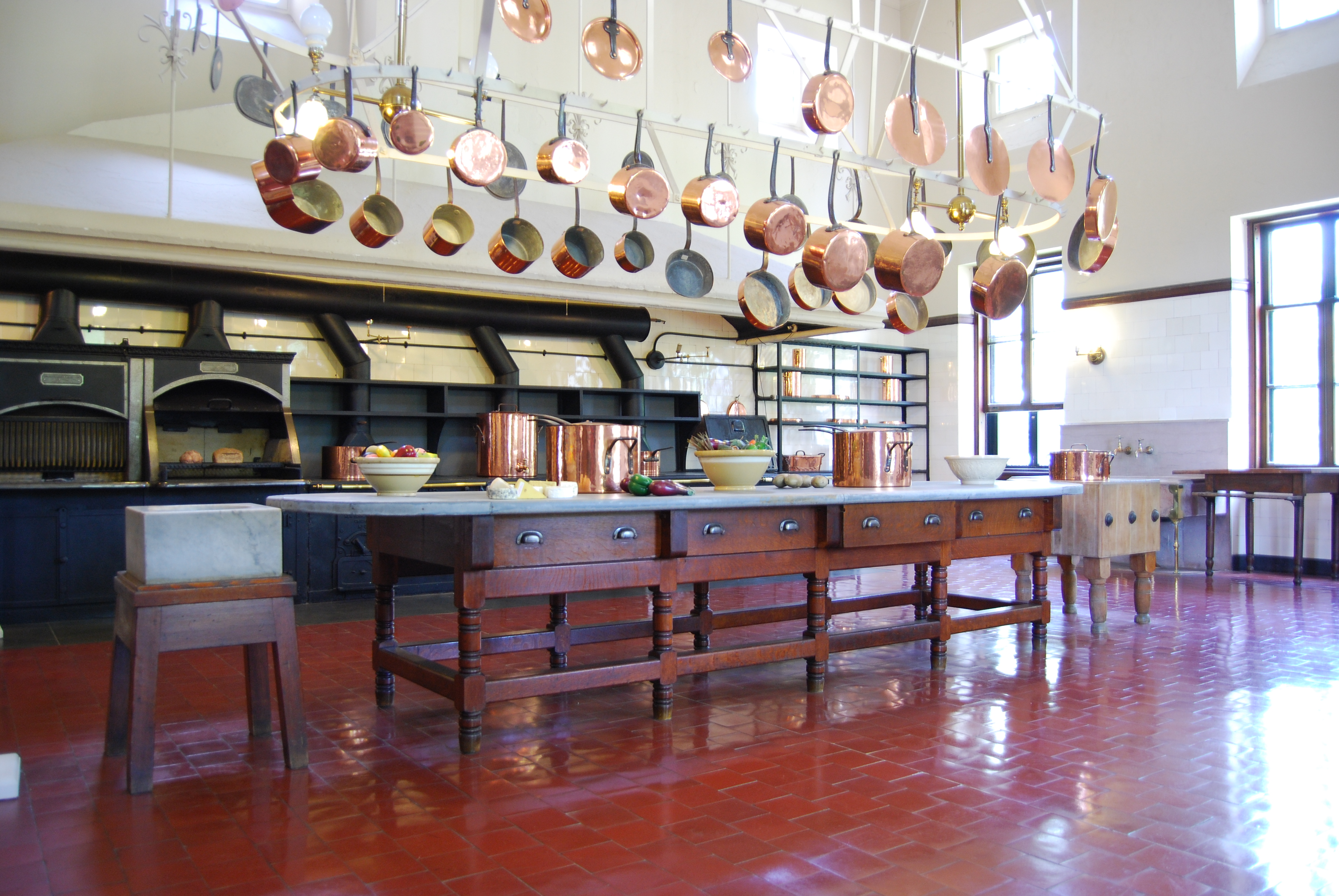 Kitchen at The Breakers in Newport, Rhode Island, United States